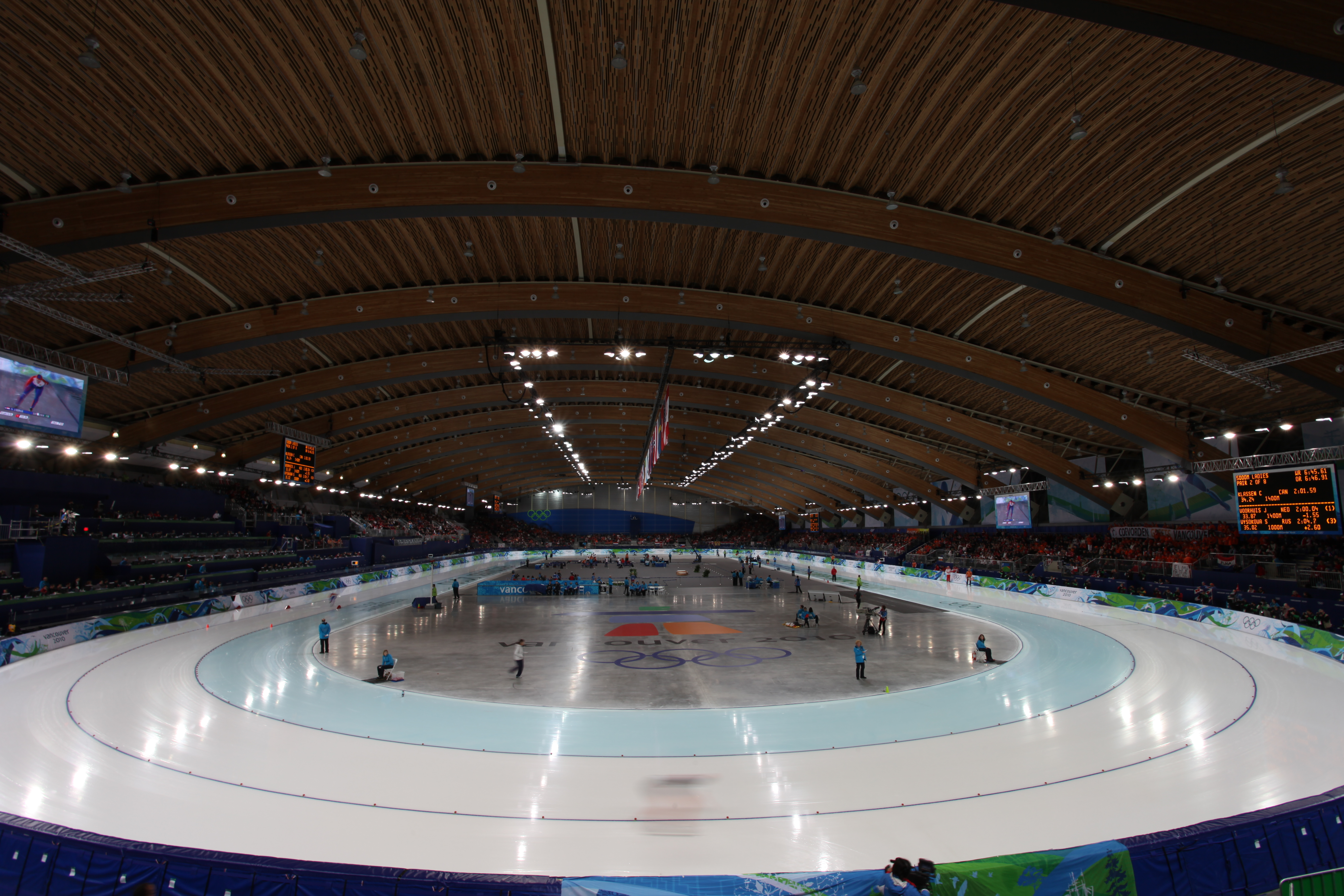 Richmond Olympic Oval - Women's 5000 meter finals at Vancouver 2010 Olympics